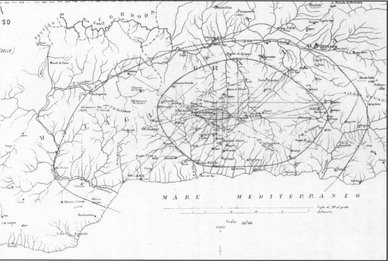 Seismic intensity map for the 1884 Andalusian earthquake